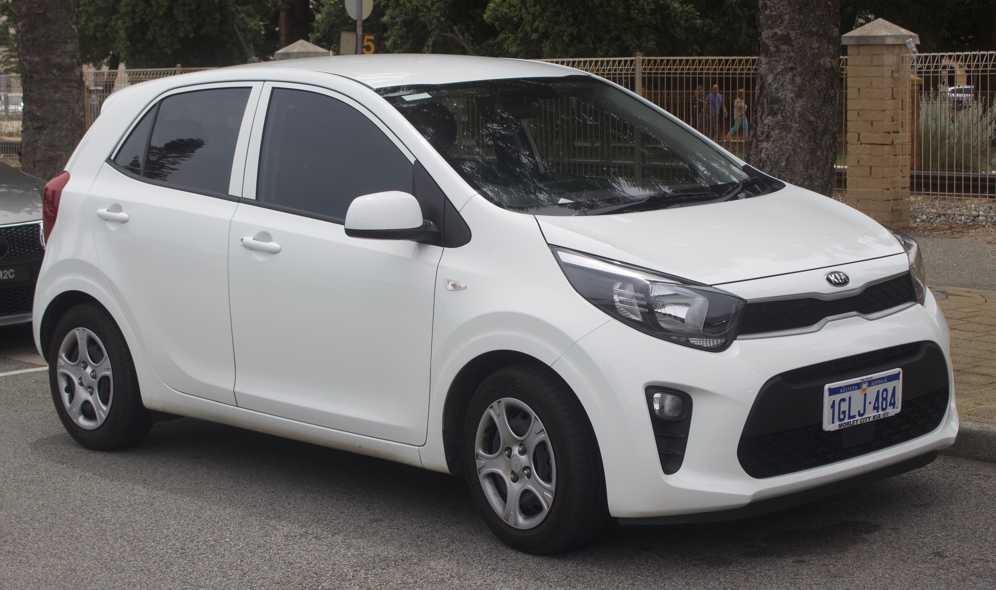 2018 Kia Picanto (JA MY19) S hatchback. Photographed in Fremantle, Western Australia, Australia.